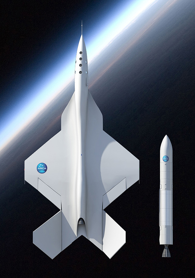 Computer generated image of Haas 2 rocket and IAR 111 supersonic plane